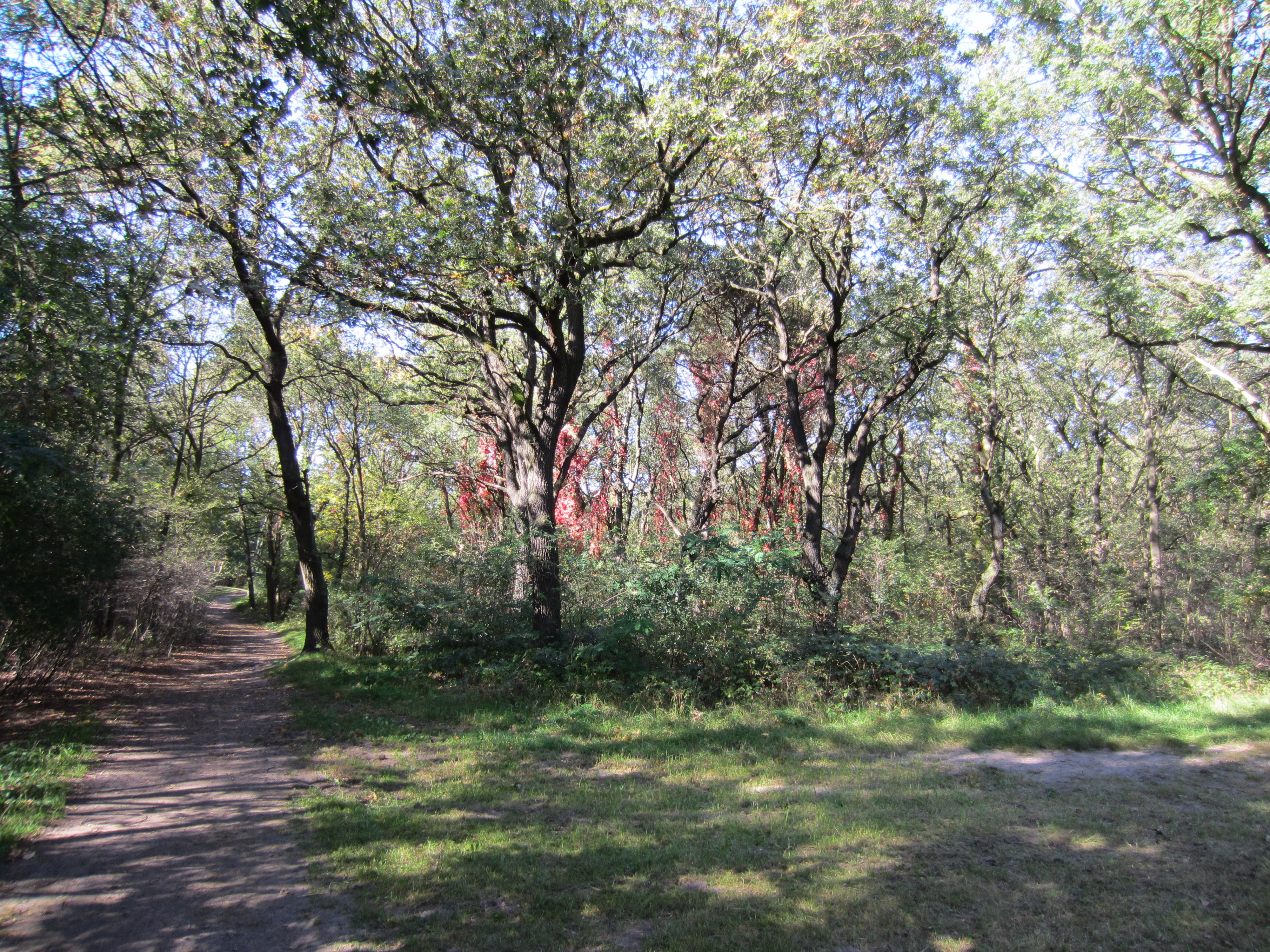 Königsheide in Berlin.